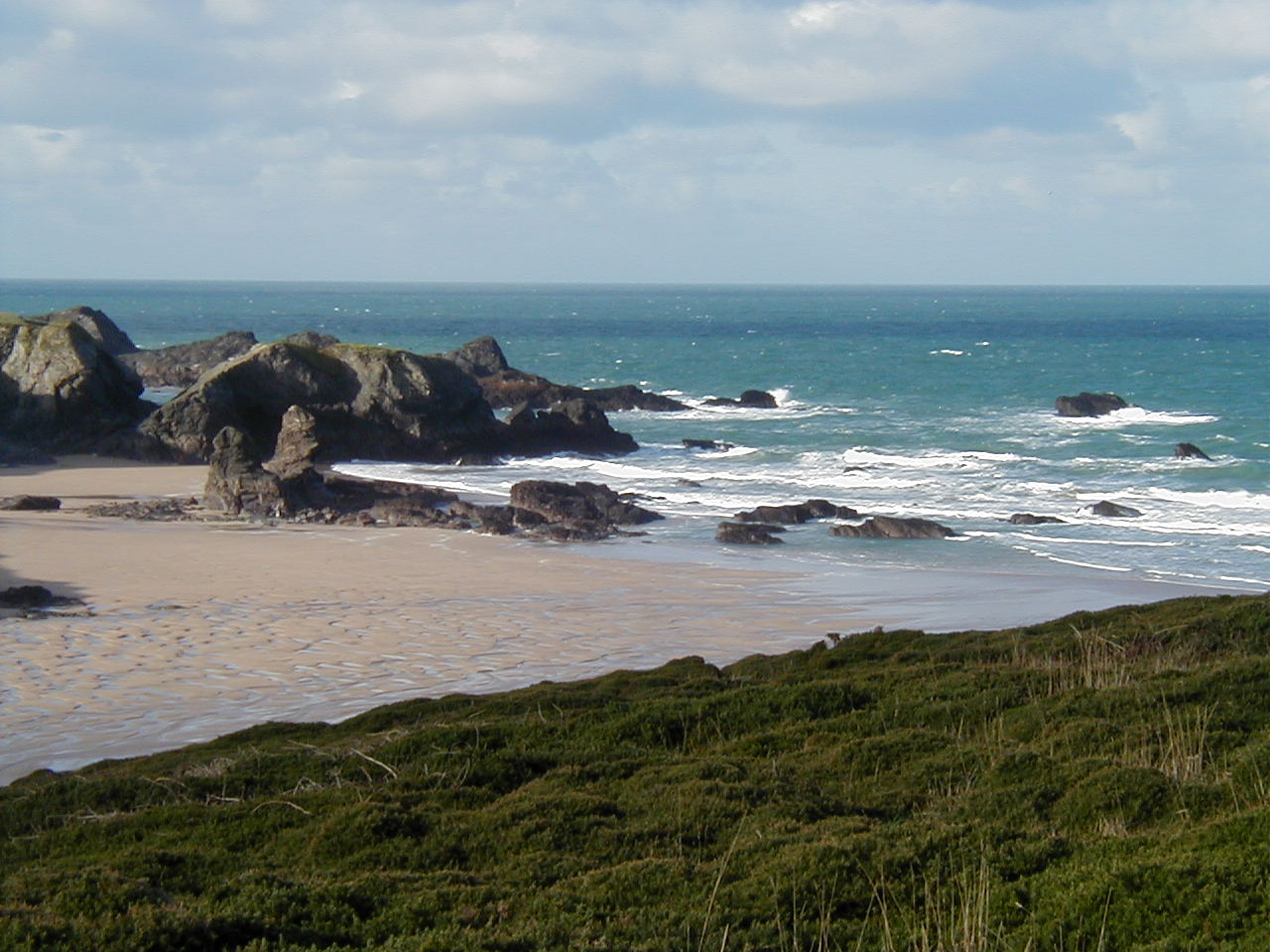 Taken by Katrina Cox October 2001